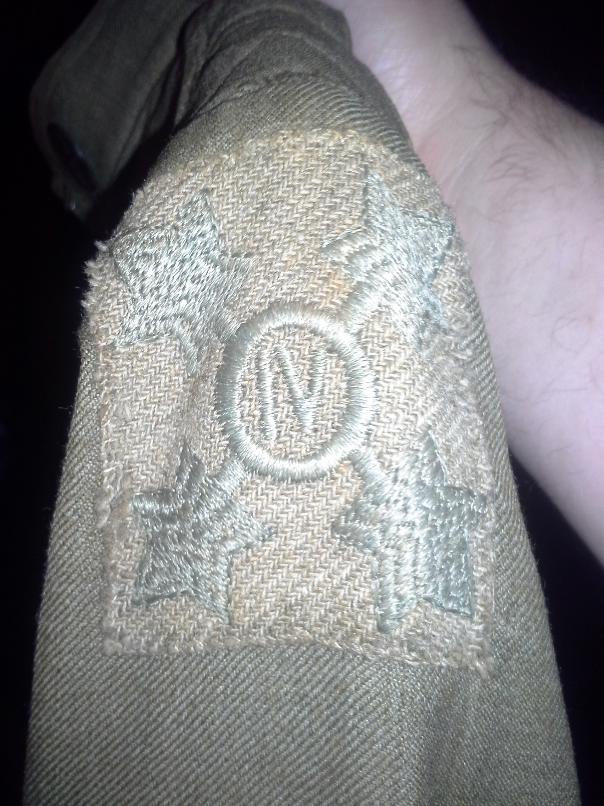 US Army 4th ID patch from WW1